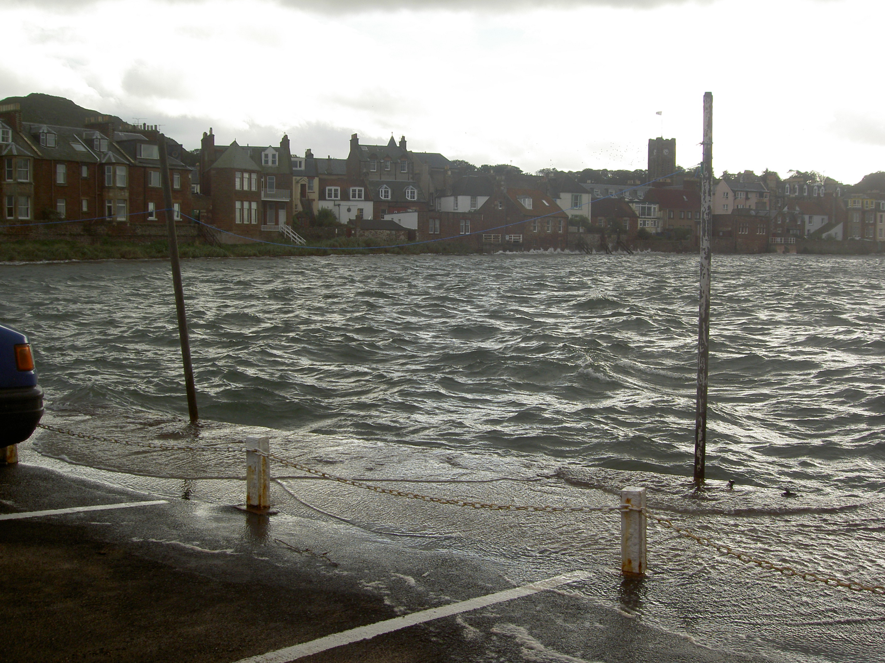 High tide North Berwick